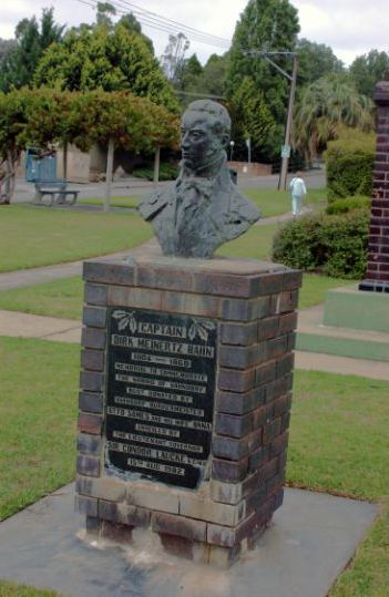 MONUMENT TO CAPTAIN DIRK HAHN IN PIONEER GARDENS, Hahndorf, South Australia, WHICH COMMEMORATES THE 39 ORIGINAL FAMILIES WHO FOUNDED HAHNDORF